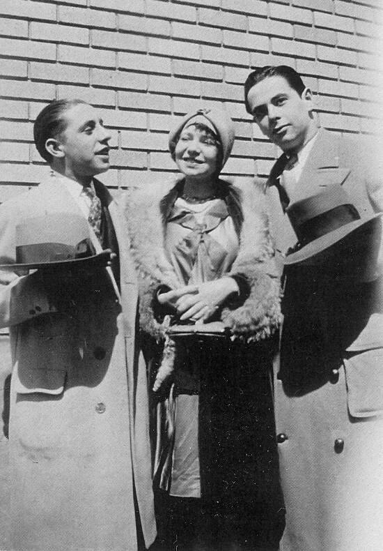 1927. Lorenz Hart, Violet W. Hamilton, and Richard Rogers share a silly-romantic sunny day in England.